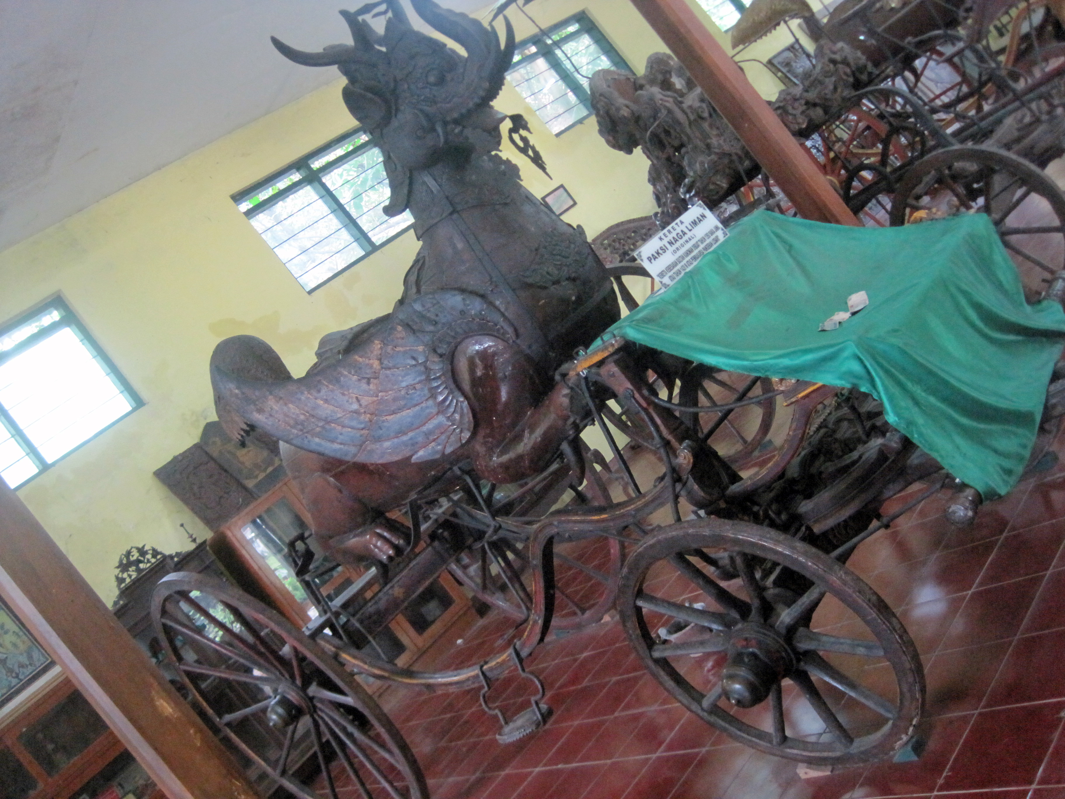 Kereta Paksi Naga Liman, Keraton Kanoman, Cirebon, Indonesia